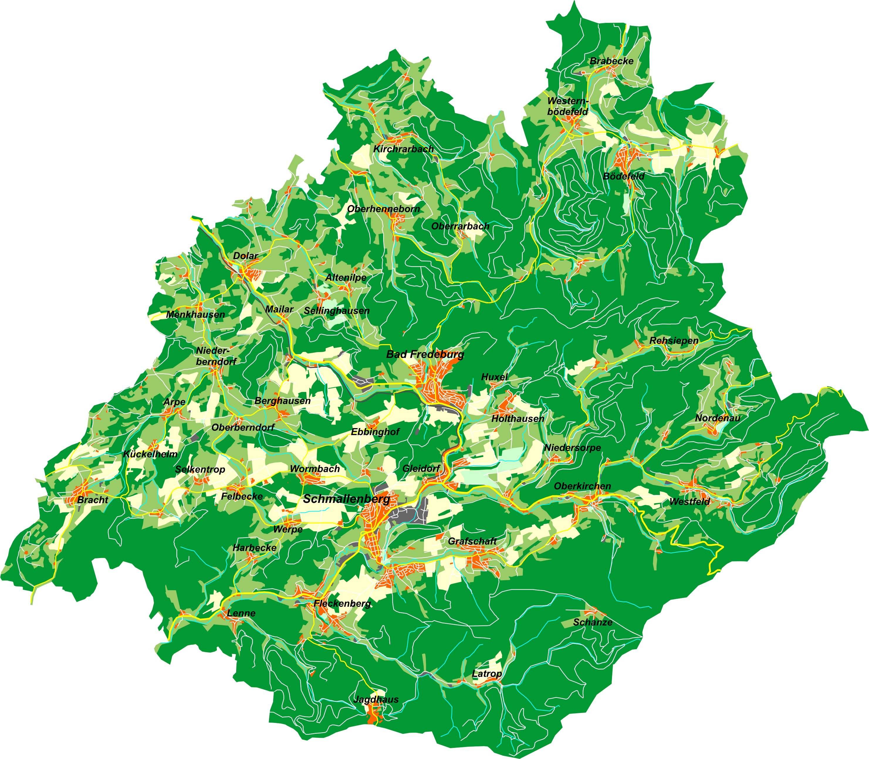 Map of Schmallenberg, Germany